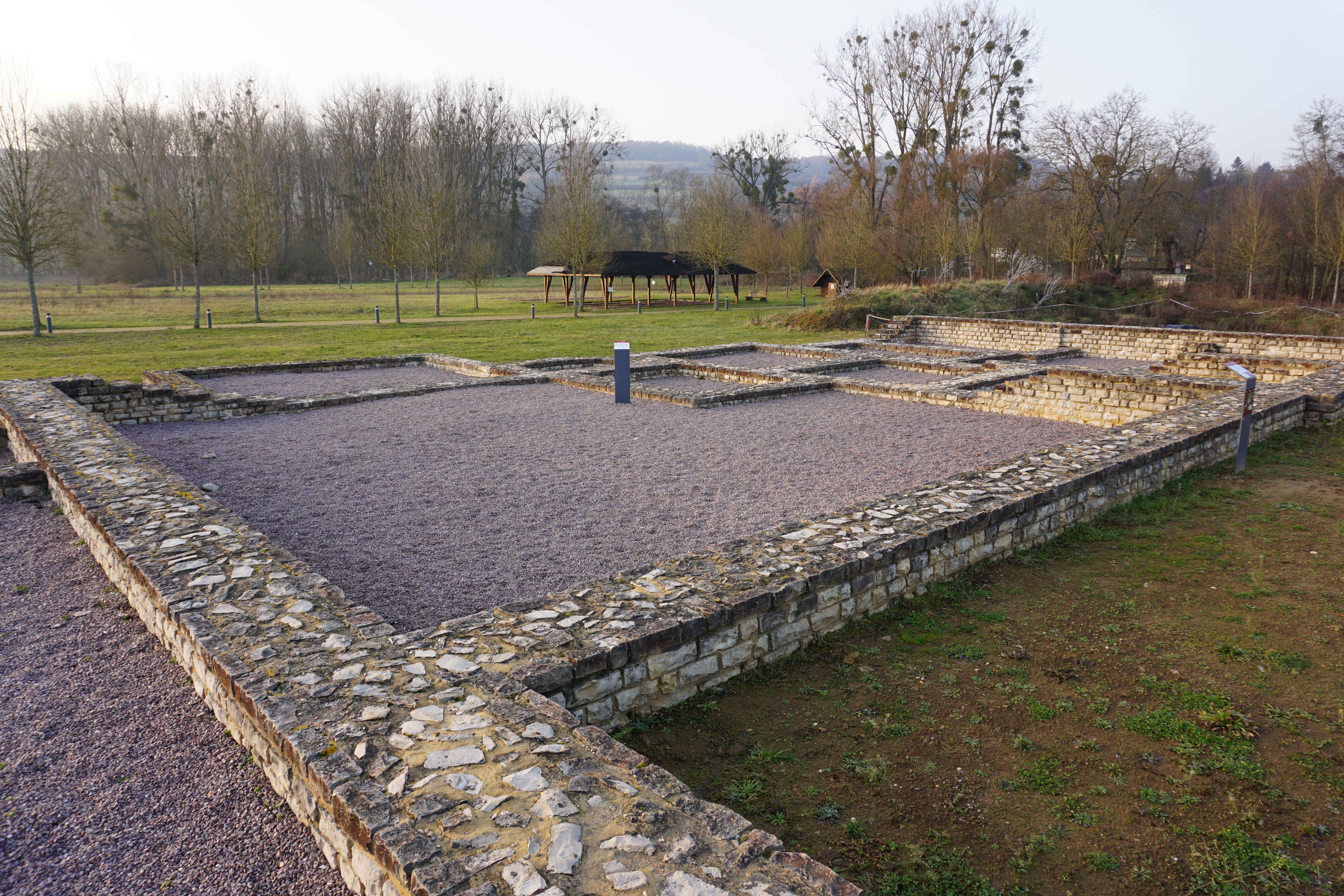 Bathing area in the west wing of the Roman Villa Reinheim.